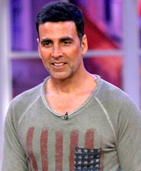 Akshay Kumar promoting his film 'Gabbar Is Back'